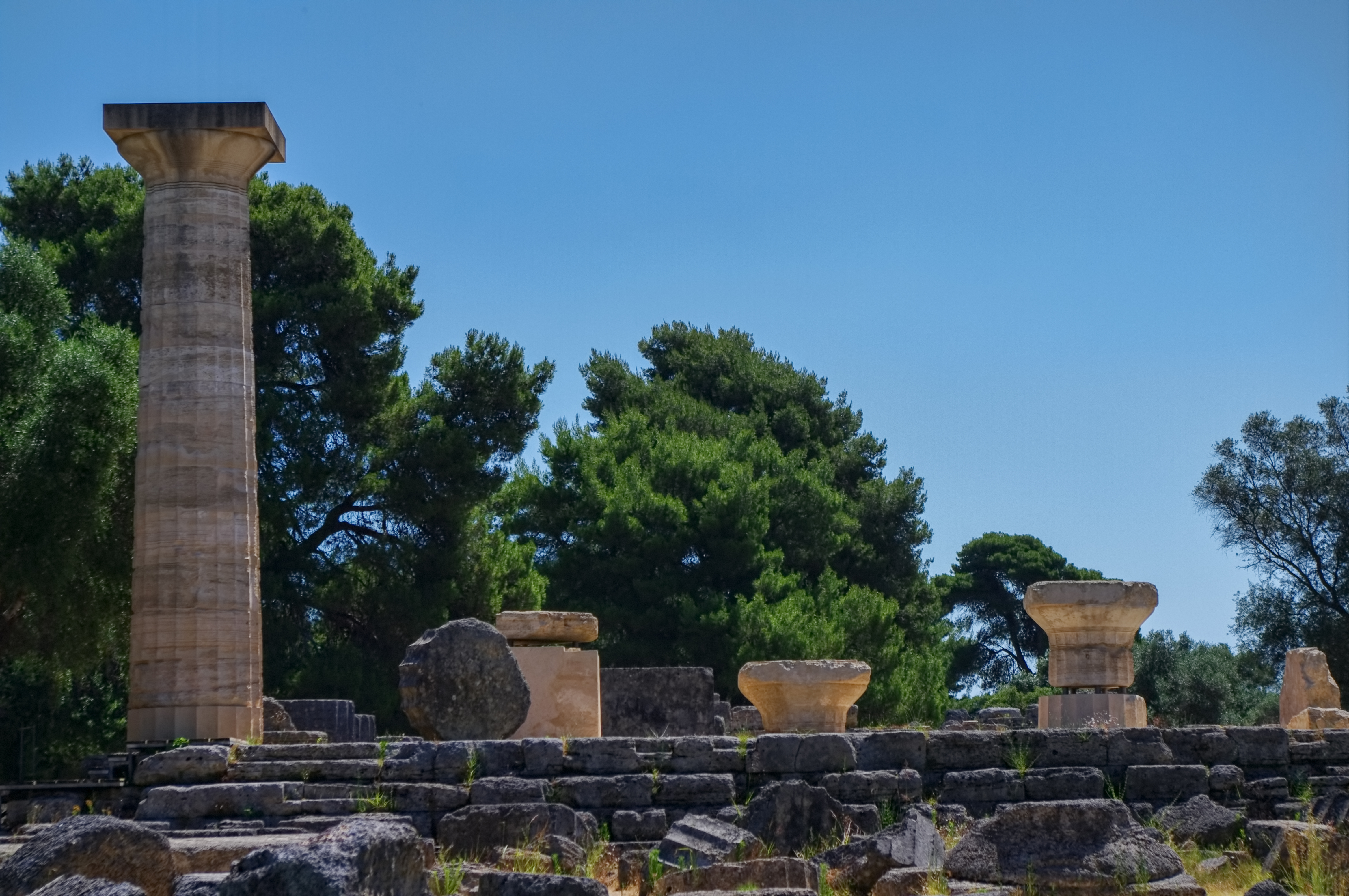 Temple of Zeus at Olympia (west end)«Ναός του Δία στην Ολυμπία»